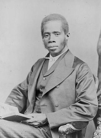 Edward Wilmot Blyden (1832−1912) — Liberian educator, statesman, and Presbyterian minister. Half-length portrait, seated, facing left, holding a book. The father of Pan-Africanism, he was born in the Danish West Indies to Free Black parents. Blyden was refused admission to three theological seminaries in the Northern U.S. because of his race, so in 1850 he moved to Liberia, making his career and life there. TITLE Revd. E. W. Blyden, L.L.D. / Maull & Co., Photographers and Miniature Painters, 187A Piccadilly and Cheapside. CALL NUMBER LOT 11192-1 [item] [P&P] REPRODUCTION NUMBER LC-USZ62-135638 (b&w film copy neg.) CREATED/PUBLISHED [London] : Published by Dalton and Lucy, Booksellers to the Queen, 28, Cockspur Street, S.W., [between 1866 and 1900] NOTES Title from item.The Clerical Cabinet, a Series of First class Portraits.No. 88271E.